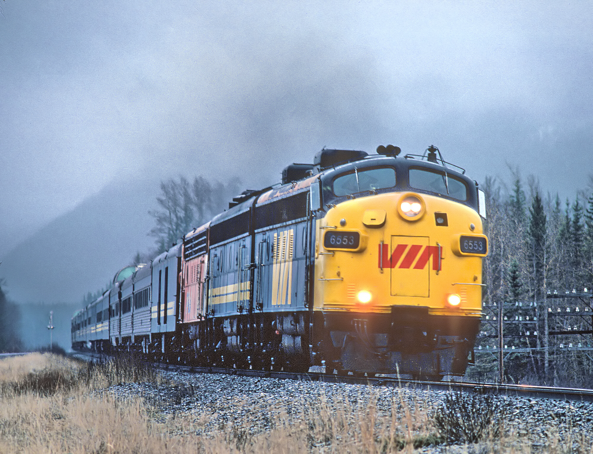 VIA 6553 with the Canadian at the Old Yale Road crossing, just east of Rosedale, BC on the Yale Sub. in May 1982